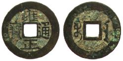 27 mm Obv.: Yung Cheng T'ung Pao Rev.: Right: Manchu An - Anhui Left: Manchu Boo - coin Rarity: Ref.: [S] No. 1457 Dynasty: Ch'ing (1644 - 1911 a.d.) Emperor: Shih Tsung (1723-1735 a.d.) Reign Title: Yung Cheng (1723-1735 a.d.)